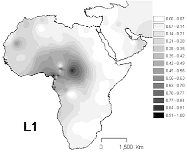 Interpolation maps for L1 haplogroup in the sub-Saharan pool observed in each sample.